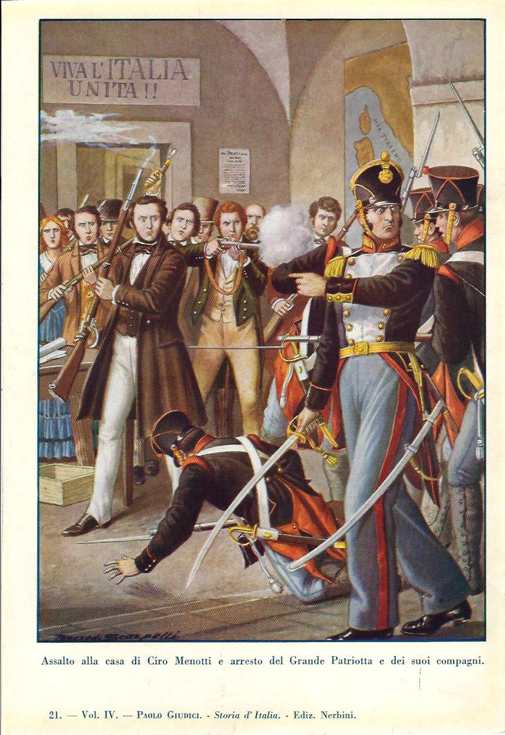 The moment of the assault on Modena on 3 February 1831 at the house and the capture of Ciro Menotti, patriot born in Migliarina di Carpi in 1798 and executed in Modena on May 26, 1831.